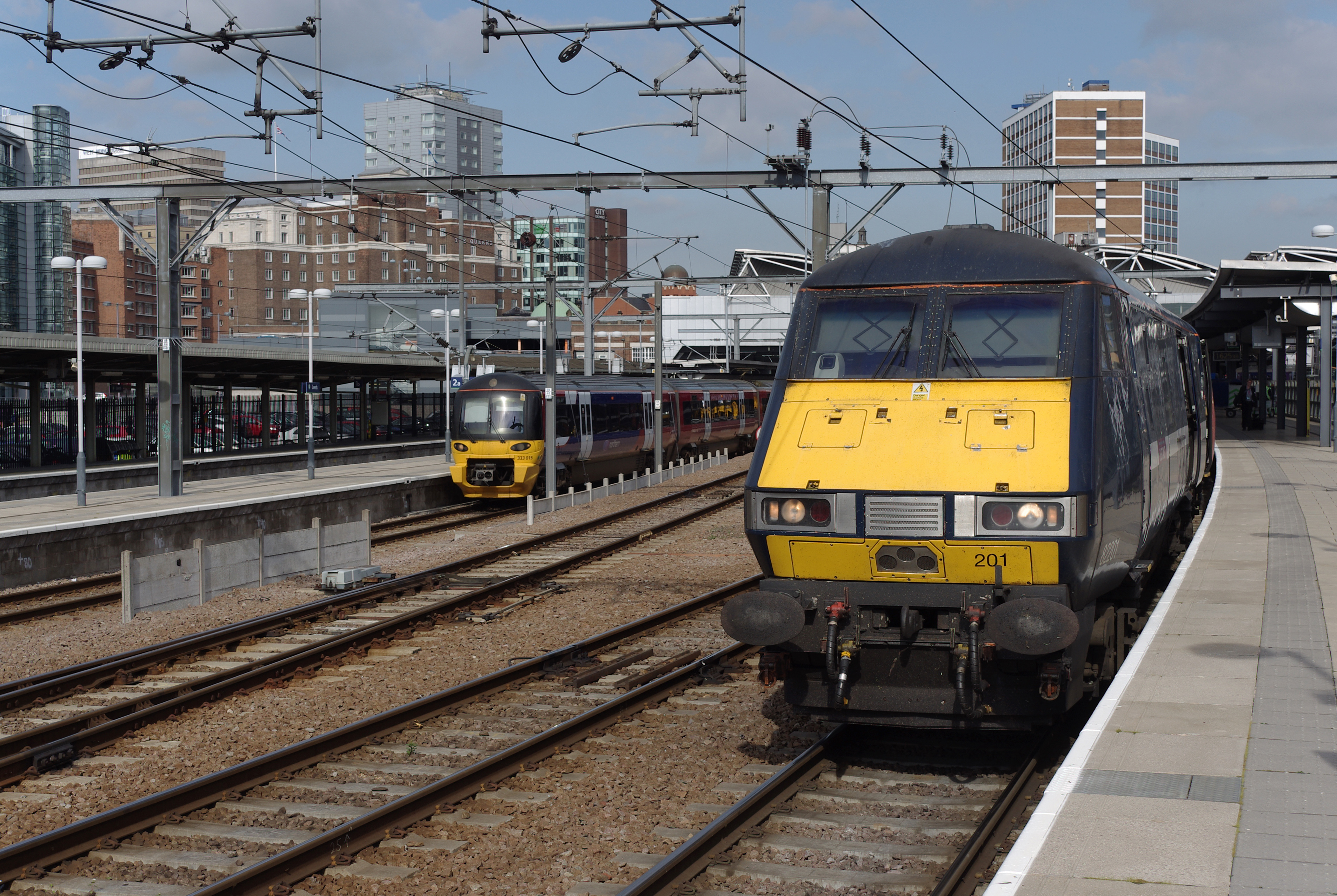 Northern Rail EMU 333015 and the DVT end of an East Coast Intercity 225 at Leeds railway station.